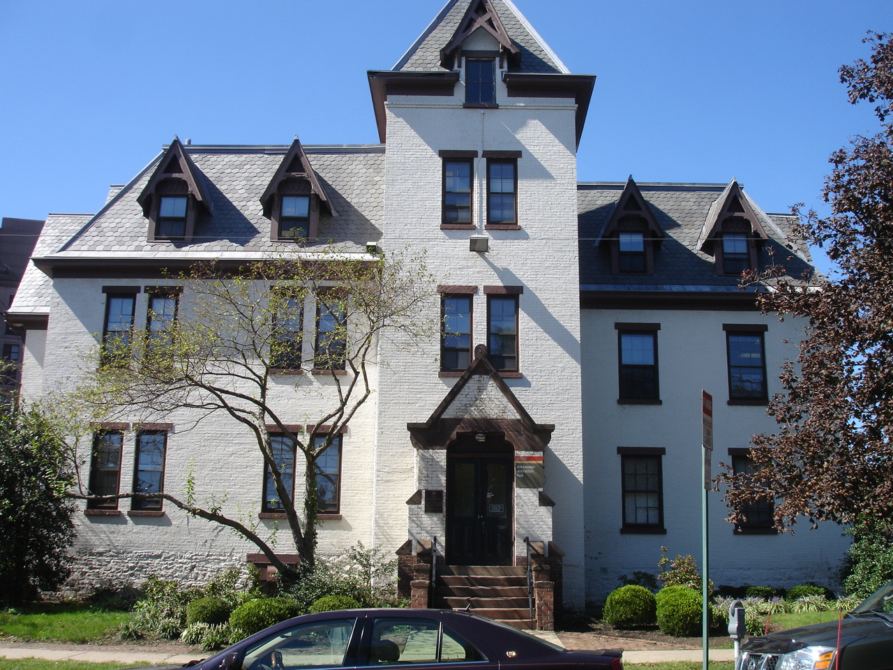 I took this photo of Alexander Johnston Hall myself on September 16, 2011.